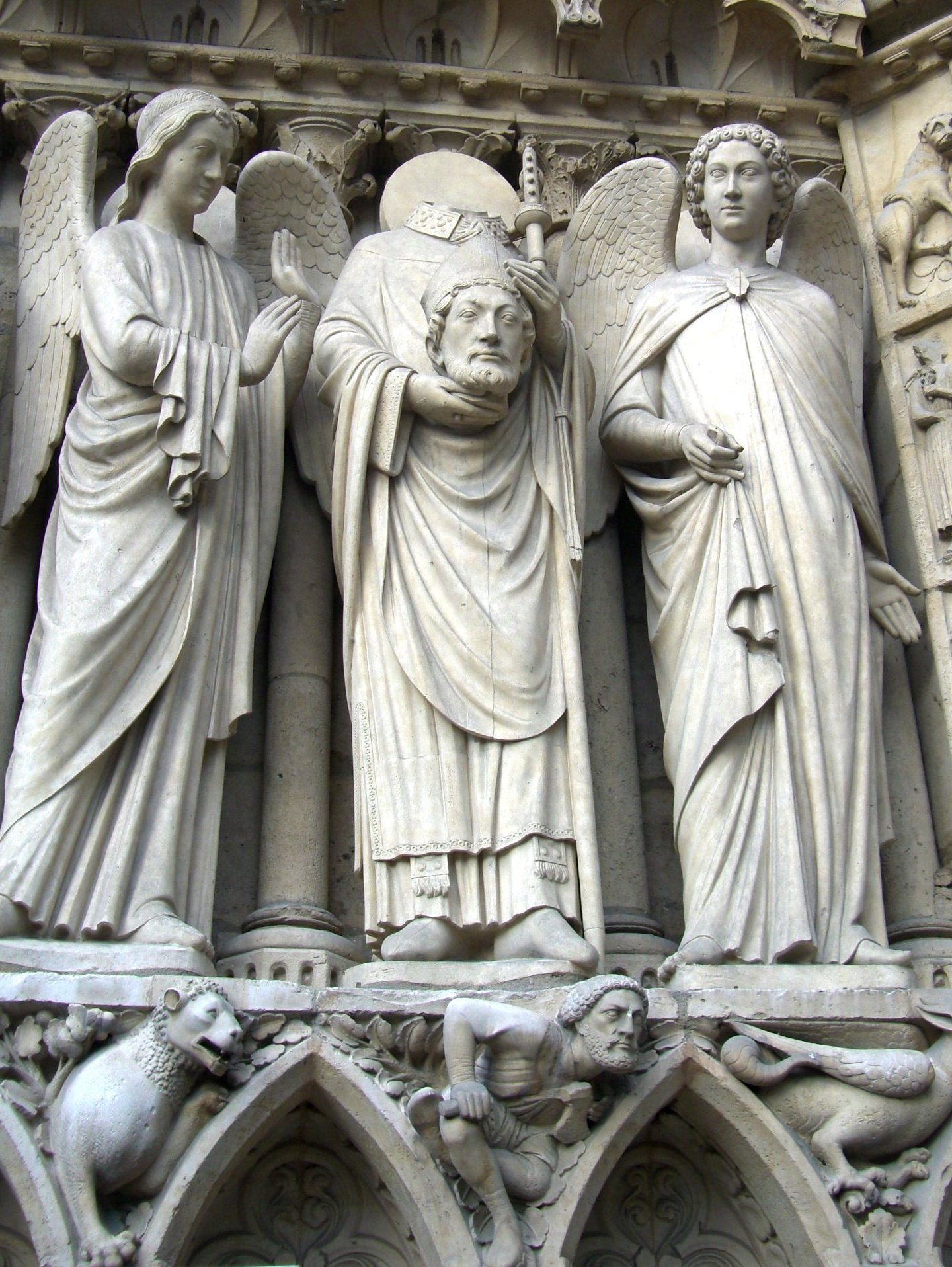 Statue of Saint Denis on the Portail de la Vierge, Notre Dame de Paris